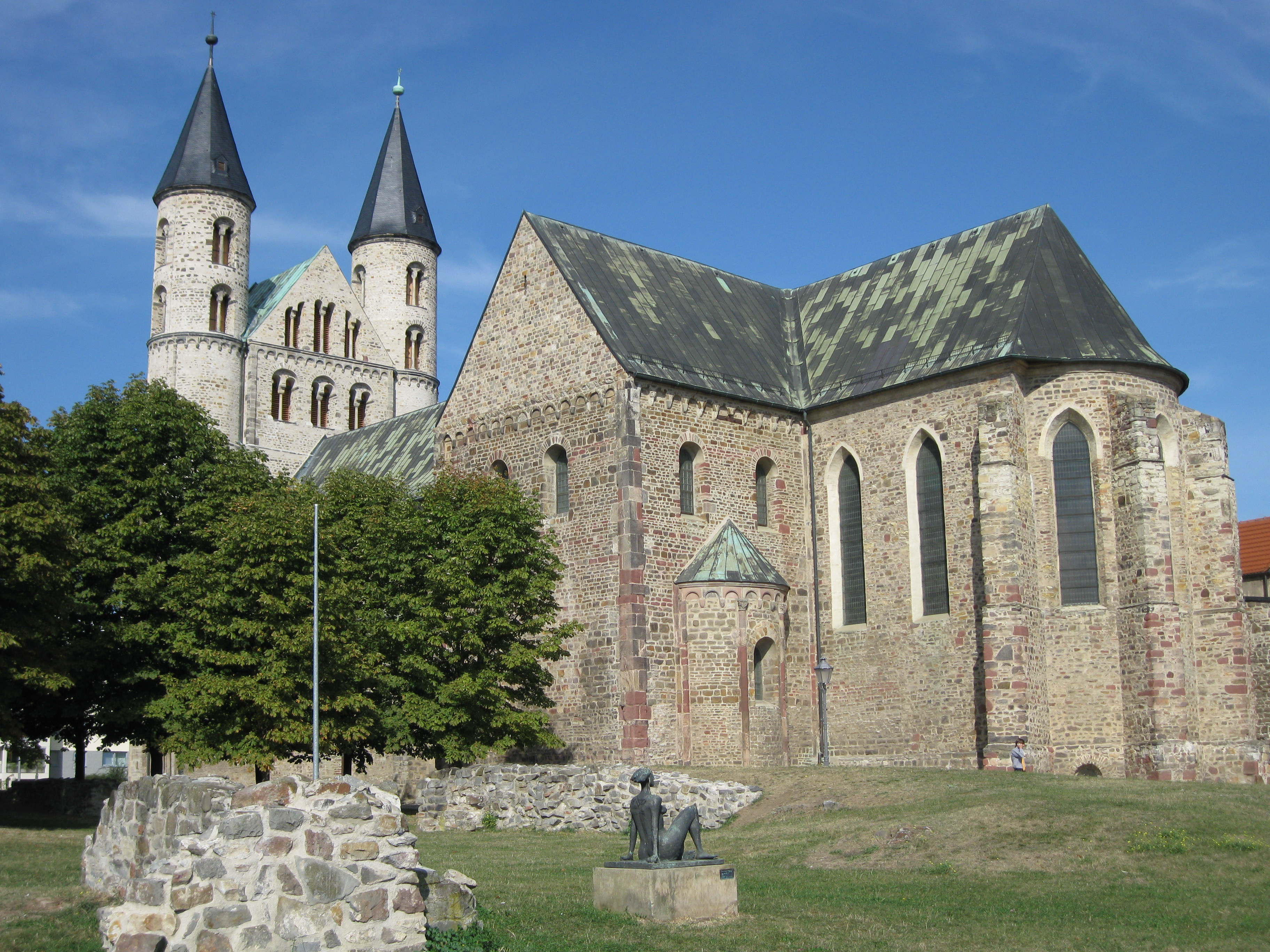 Monastery Unser Lieben Frauen, Magdeburg, Germany